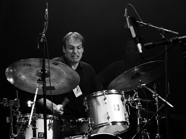 Ari Hoenig at Moers Festival 2006 own photo june 3, 2006 photo: nomo/michael hoefner